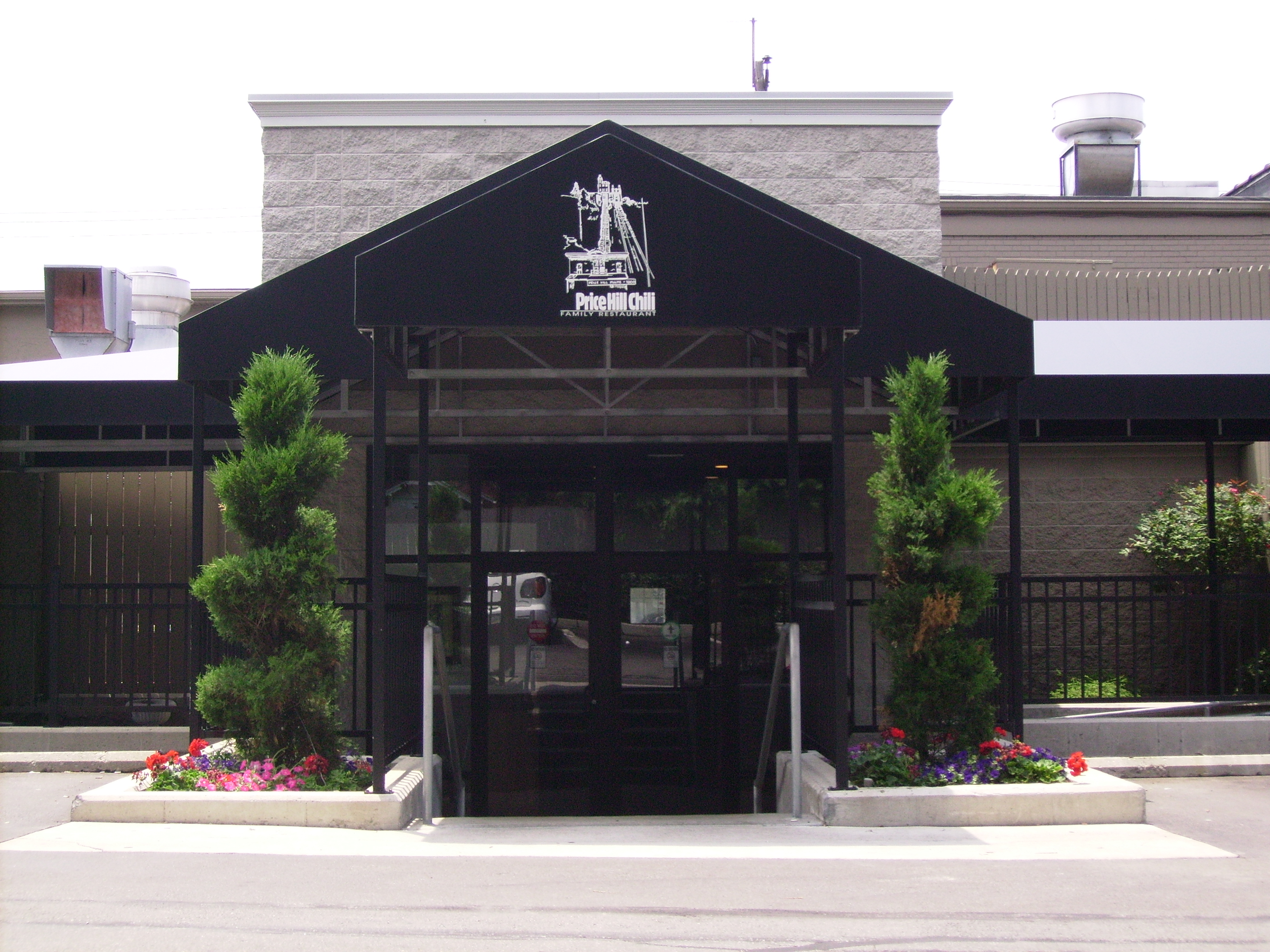 Price Hill Chili, Cincinnati, OH.